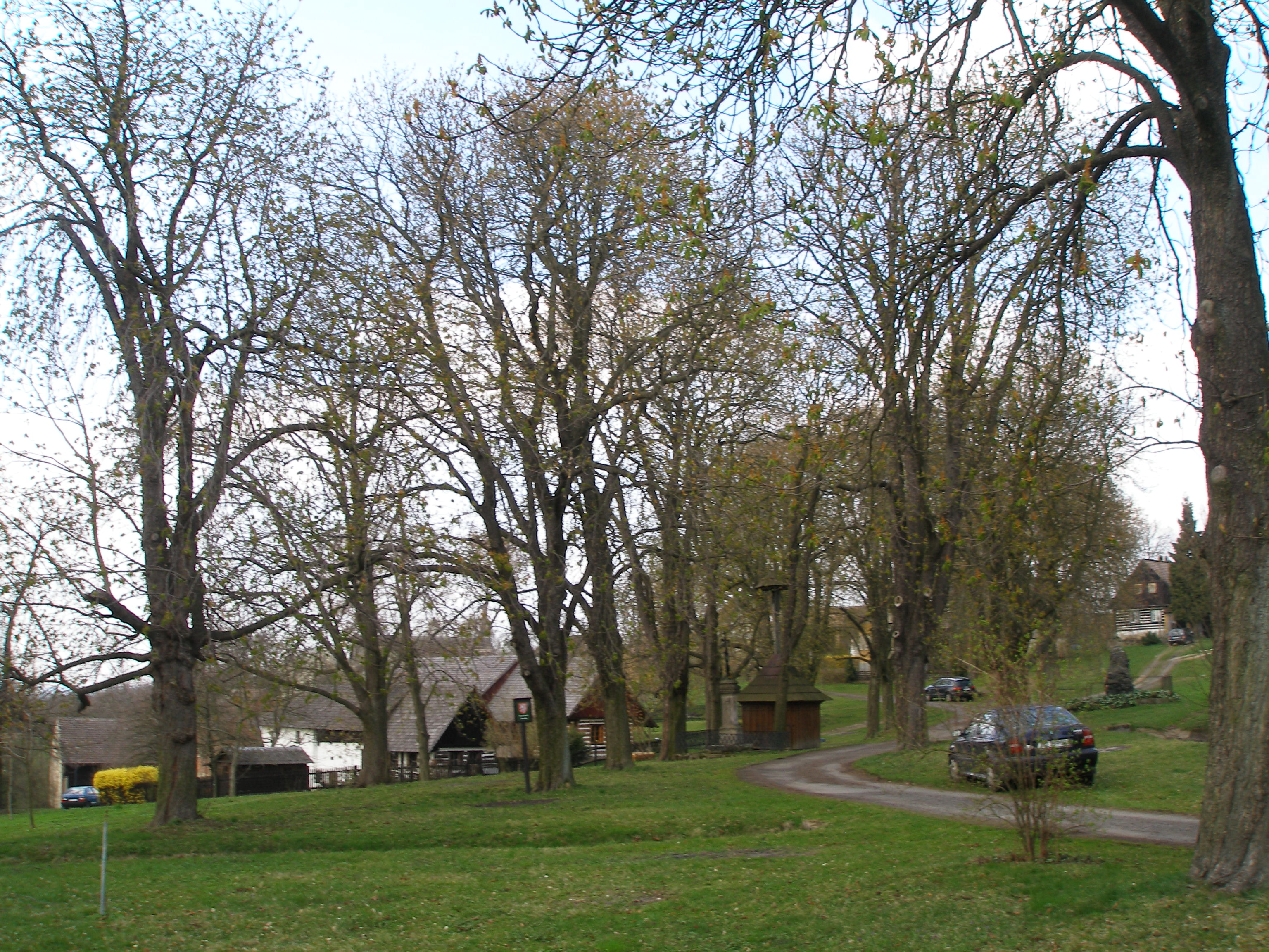 Village square in Mužský.